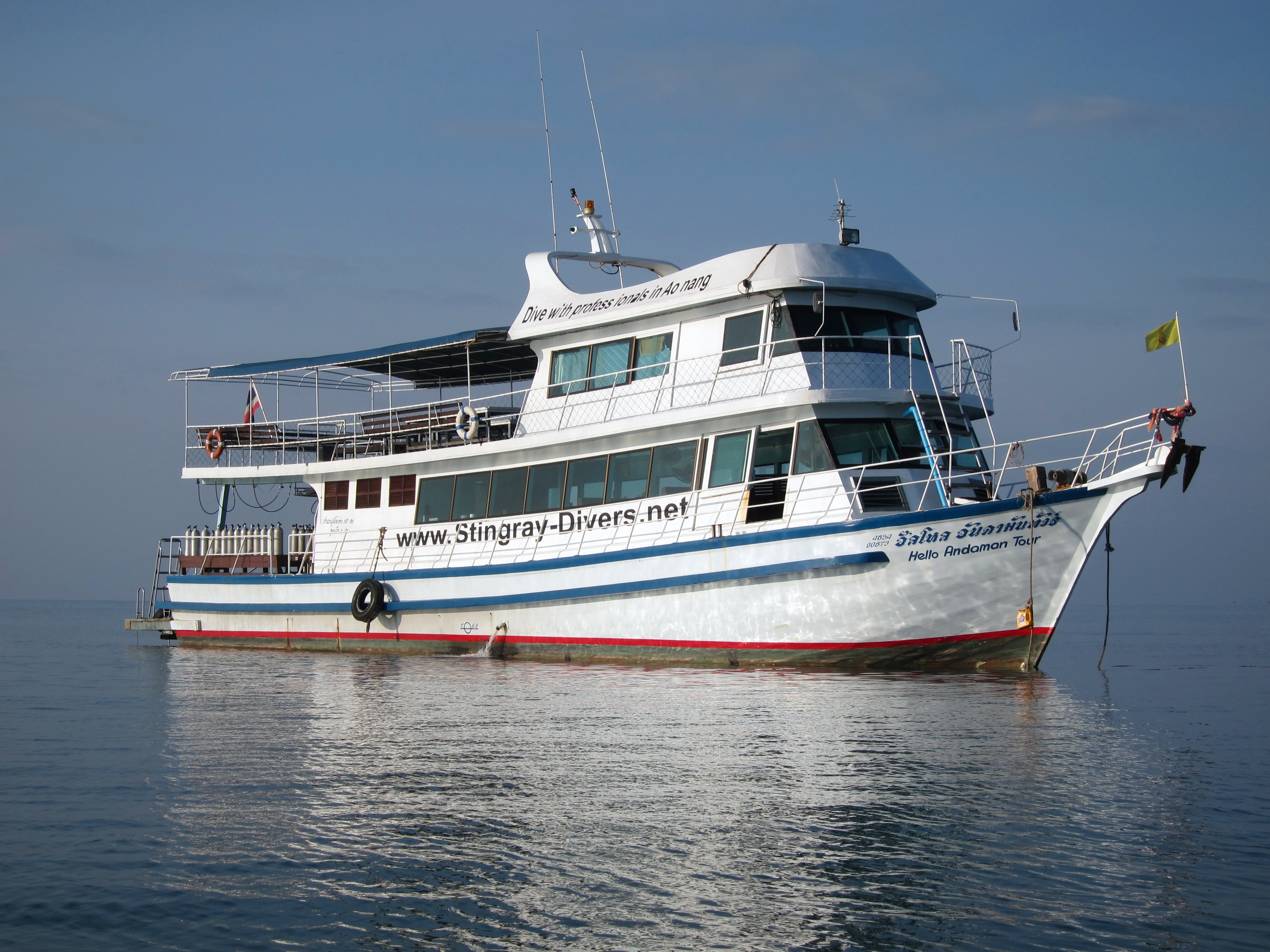 I dived with Raya Divers, who do not have a boat of their own at Ao Nang. Instead, they rent places on this boat run by Stingray Divers.